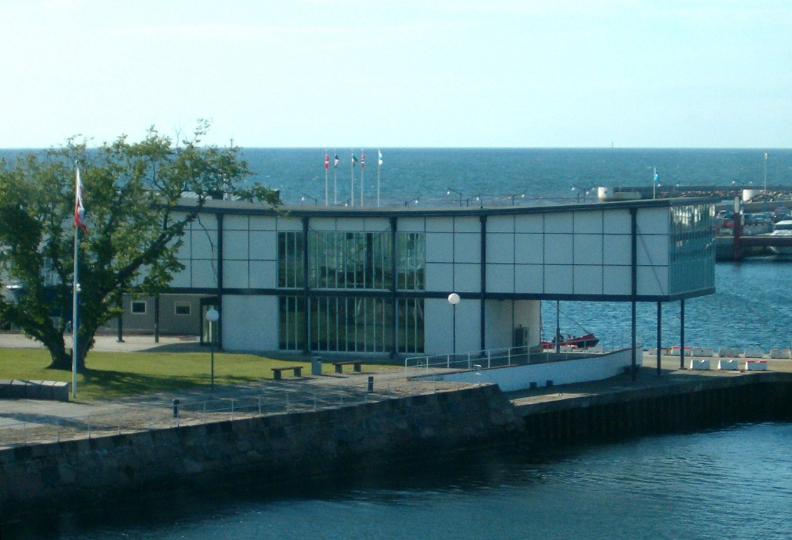 Pavillion from the H55 exhibit in Helsingborg.